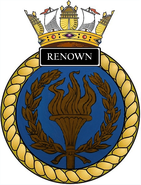 This image is the crest of the United Kingdom's submarine HMS Renown (S26) commissioned 15 November 1968 and decommisioned in 1996.